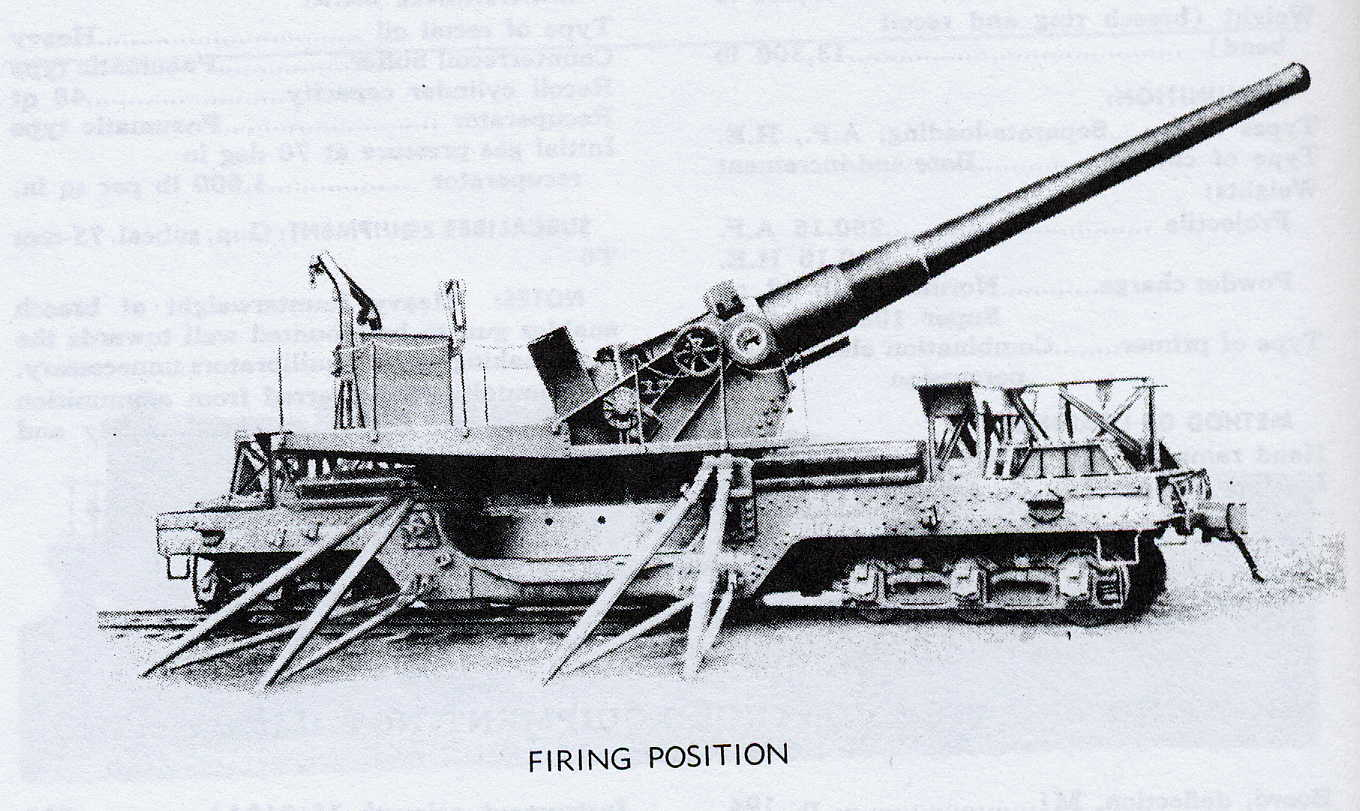 US 8-inch Navy MkVIM3A2 railway gun in firing position, as used by the US Army in World War II.